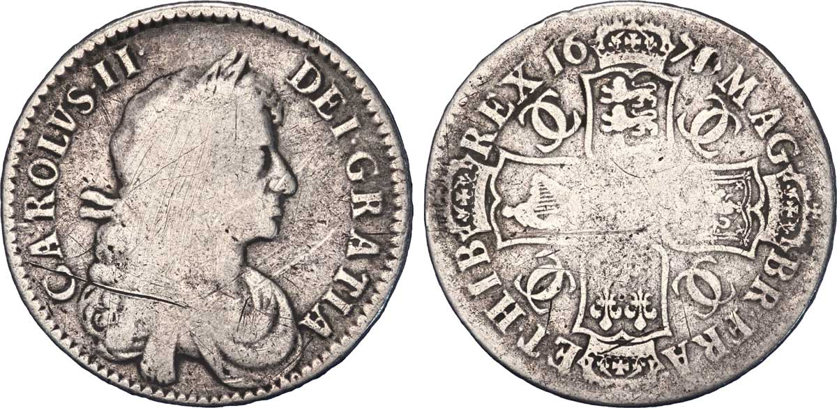 Un demi crown à l'effigie de Charles II, argent frappé en 1671. Description avers : buste à droite de Charles II . Description revers : écus couronnés d’Angleterre, Écosse, Irlande et France, quatre monogrammes formés de deux “C” croisés .